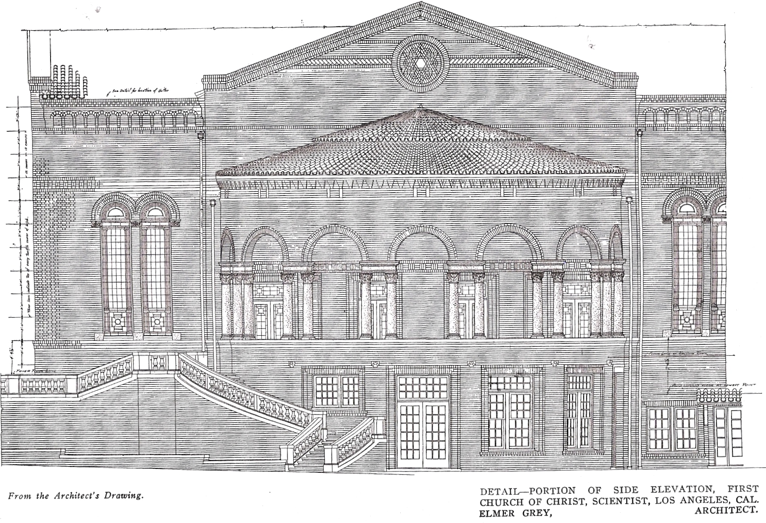 Architectural drawing of First Church of Christ Scientist, Los Angeles Source=Architectural Record, Dec. 1913, p. 549 Published in the United States before 1923.